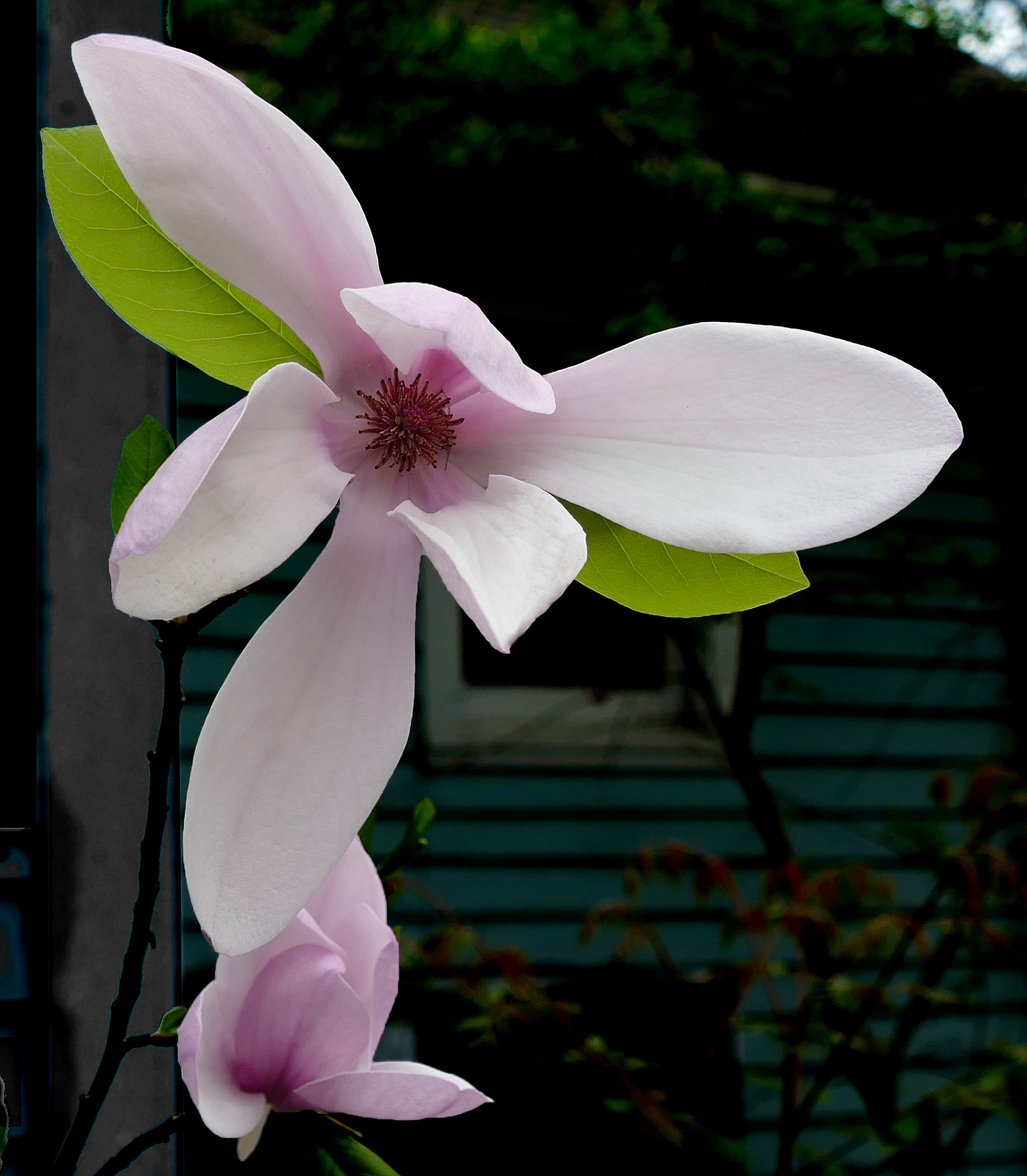 Lily Magnolia, sometimes called a Japanese Magnolia.